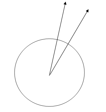 drawing microsoft